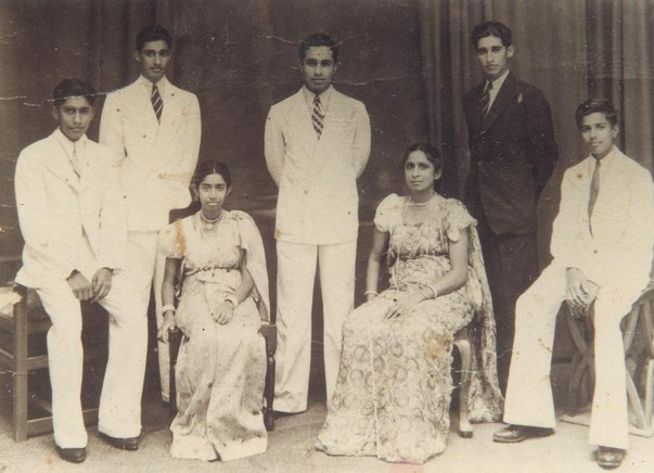 Charles Wimala Bibile, Sylvester Chandra Bibile, Sujatha Doris Ranawana (Nee Bibile), Seneka William Bibile, Prof.Senaka Bibile, Sylvia Jayawardena Bibile, Henry Ananda Bibile, Cuda Banda Bibile.